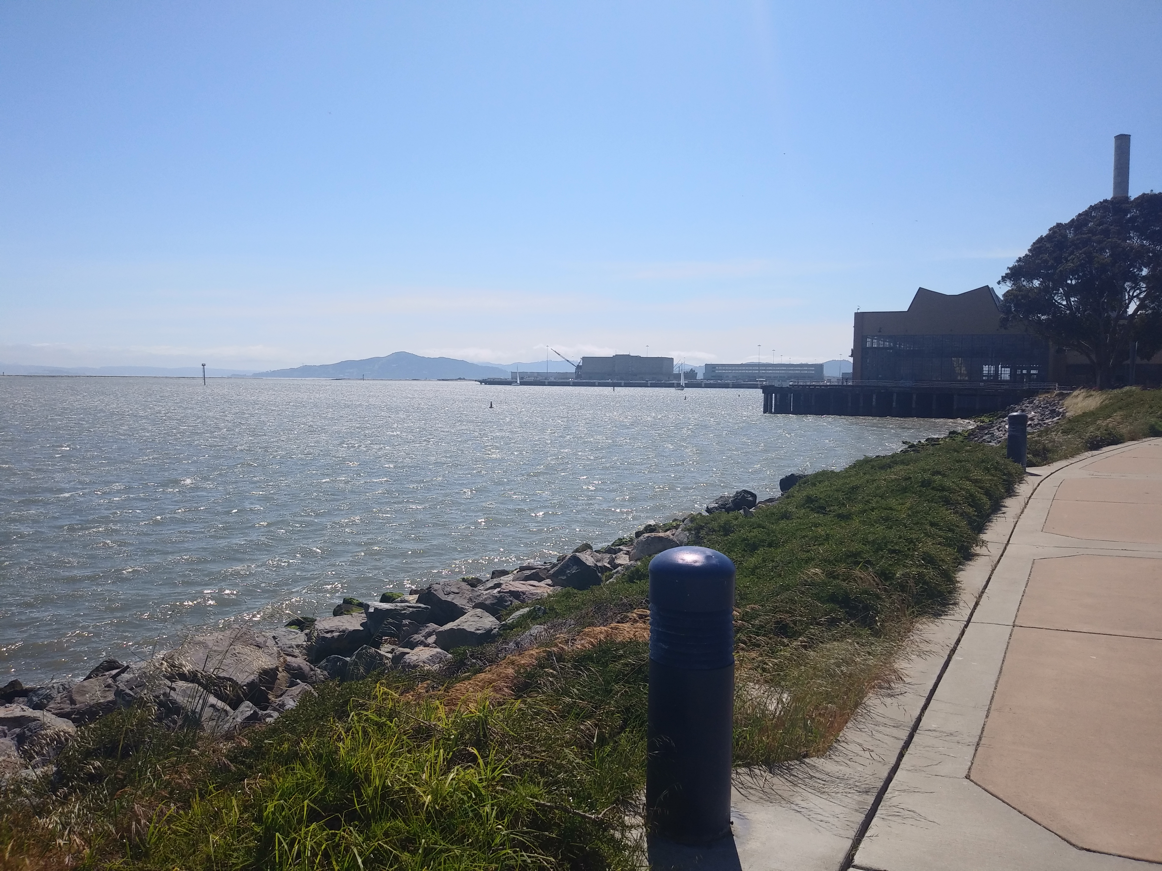 Richmond Inner Harbor as seen from Lucretia Edwards Park along the Bay Trail with the Ford Assembly Plant and Angel Island in the background